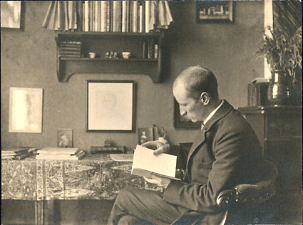 Dutch artist Sjoerd Hendrik (S.H.) de Roos (1877-1962) in his house at the Jacob Marisstraat in Amsterdam (the Netherlands), ca. 1910